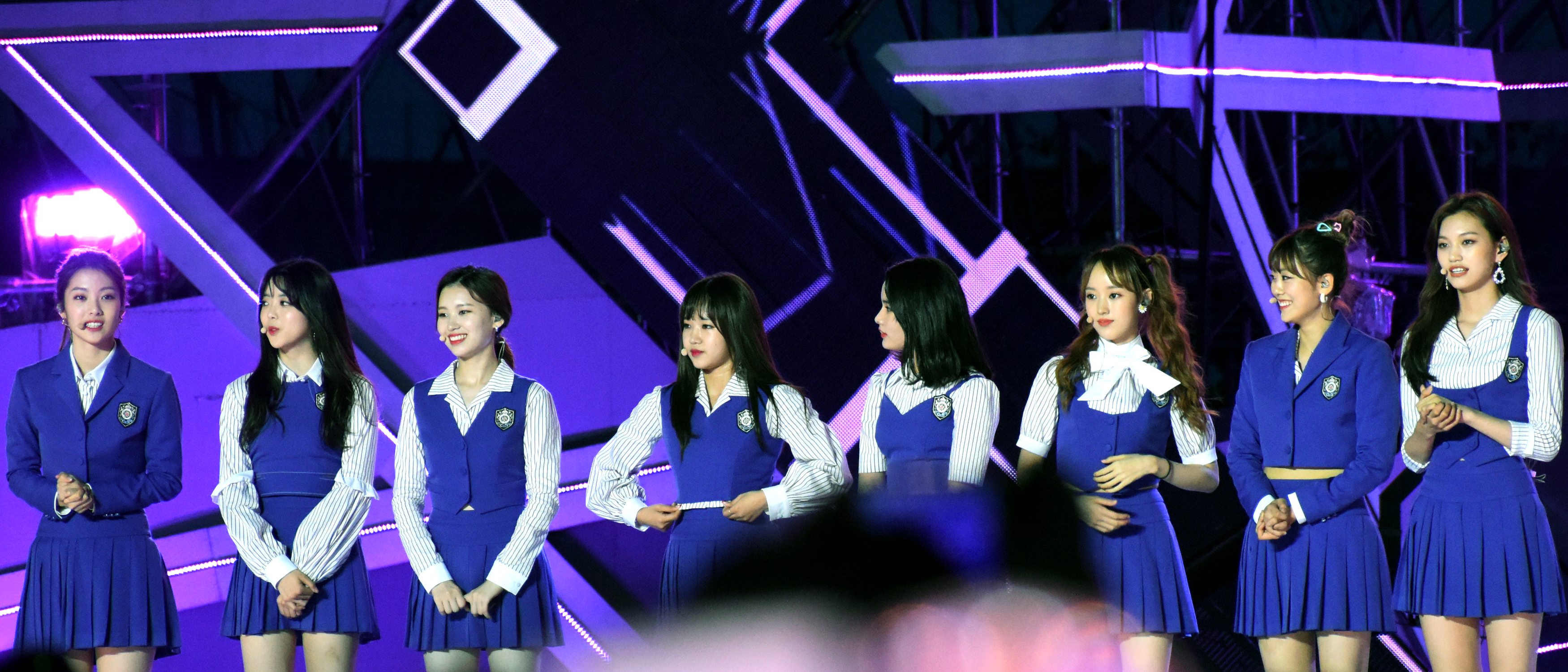 Weki Meki at the 2018 Incheon Airport Sky Festival on September 2, 2018.